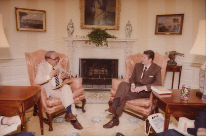 President Ronald Reagan and John Louis (6-8) Photo op. With Ambassador to United Kingdom John Louis President Ronald Reagan and S.I. Hayakawa (9-10) Meeting with Senator S.I. Hayakawa